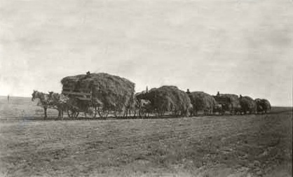 Alfalfa hay on the way to Clayton, New Mexico Photo Archives, Palace of the Governors, Santa Fe